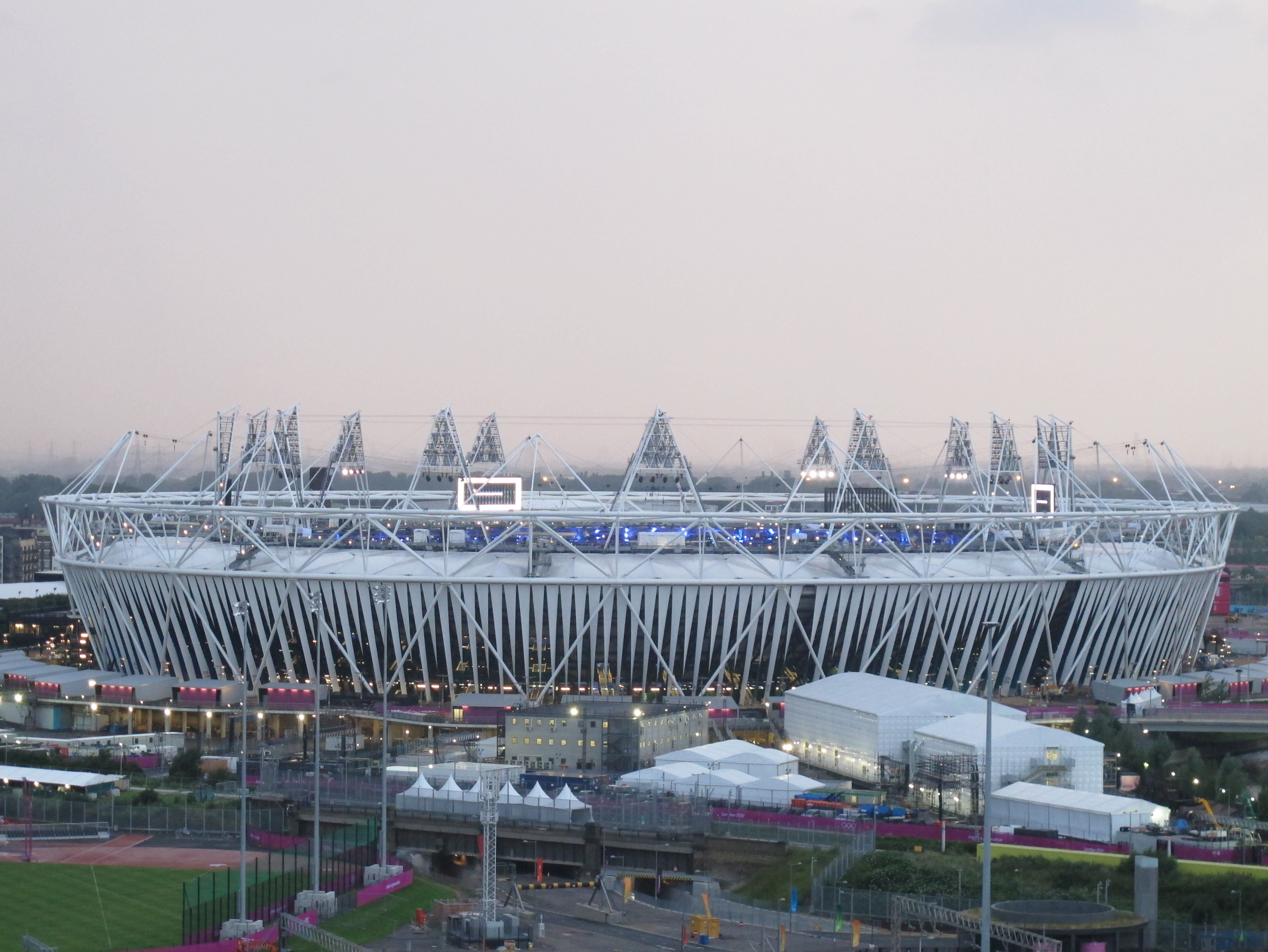 A close-up of the Stadium - the screens were on as they were practicing elements of the opening ceremony (which they've been practicing for the last 10 days or so). The wrap went up about a week ago.